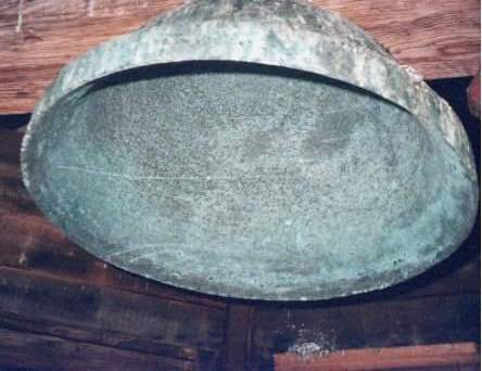 bell in Skorotice